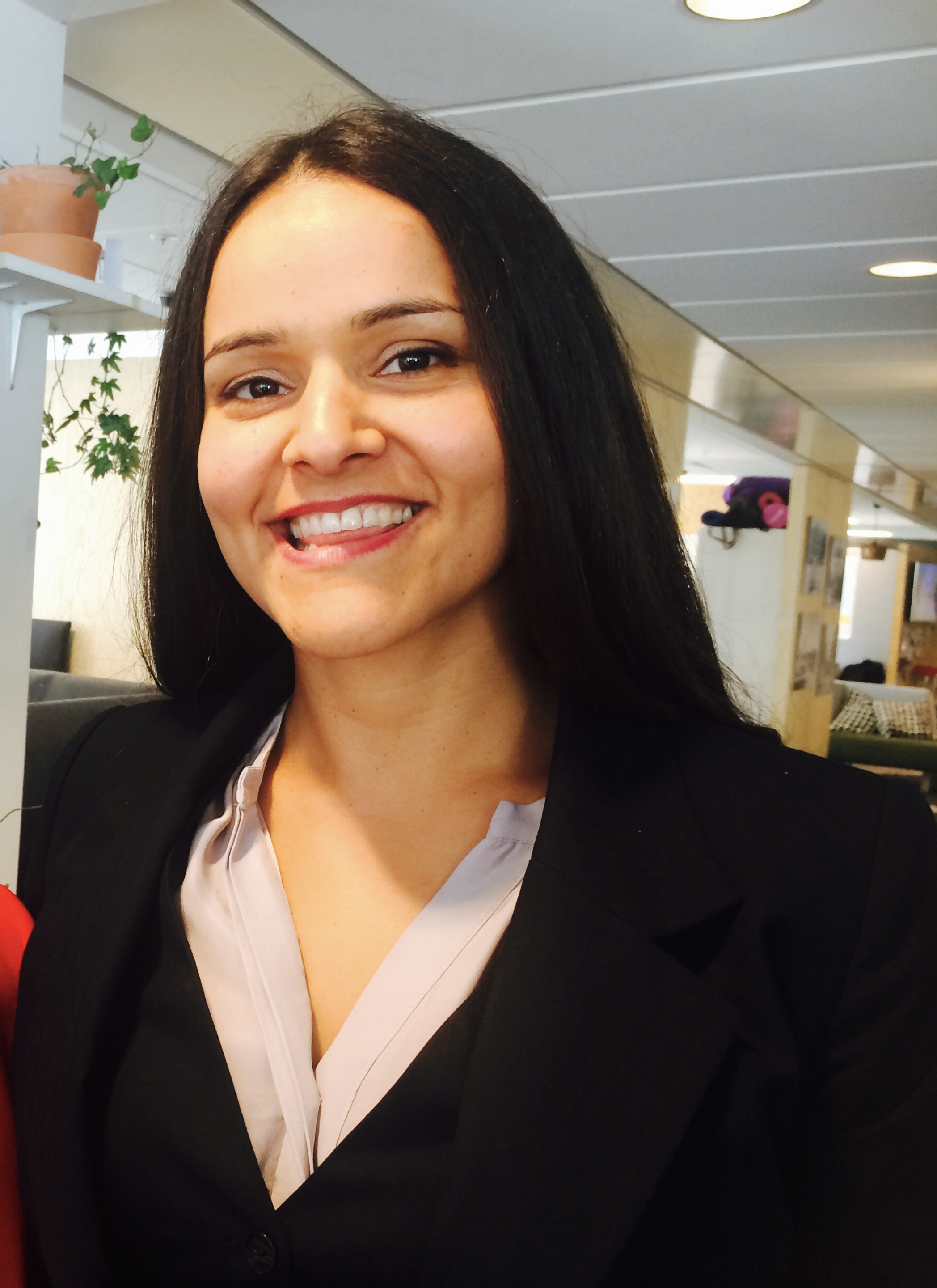 This file represent Yamina Enedahl, moderator, speaker, mental coach and Sweden´s first world record holder in Freediving